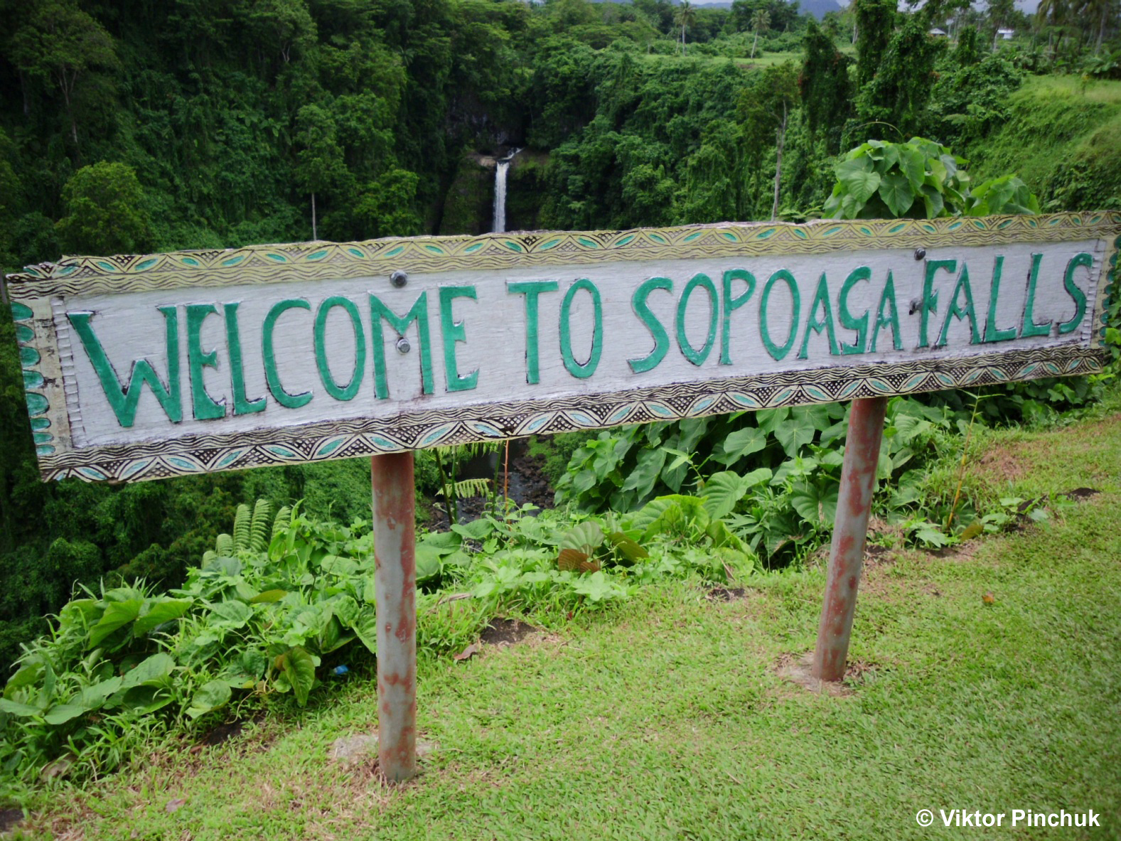 Samoa